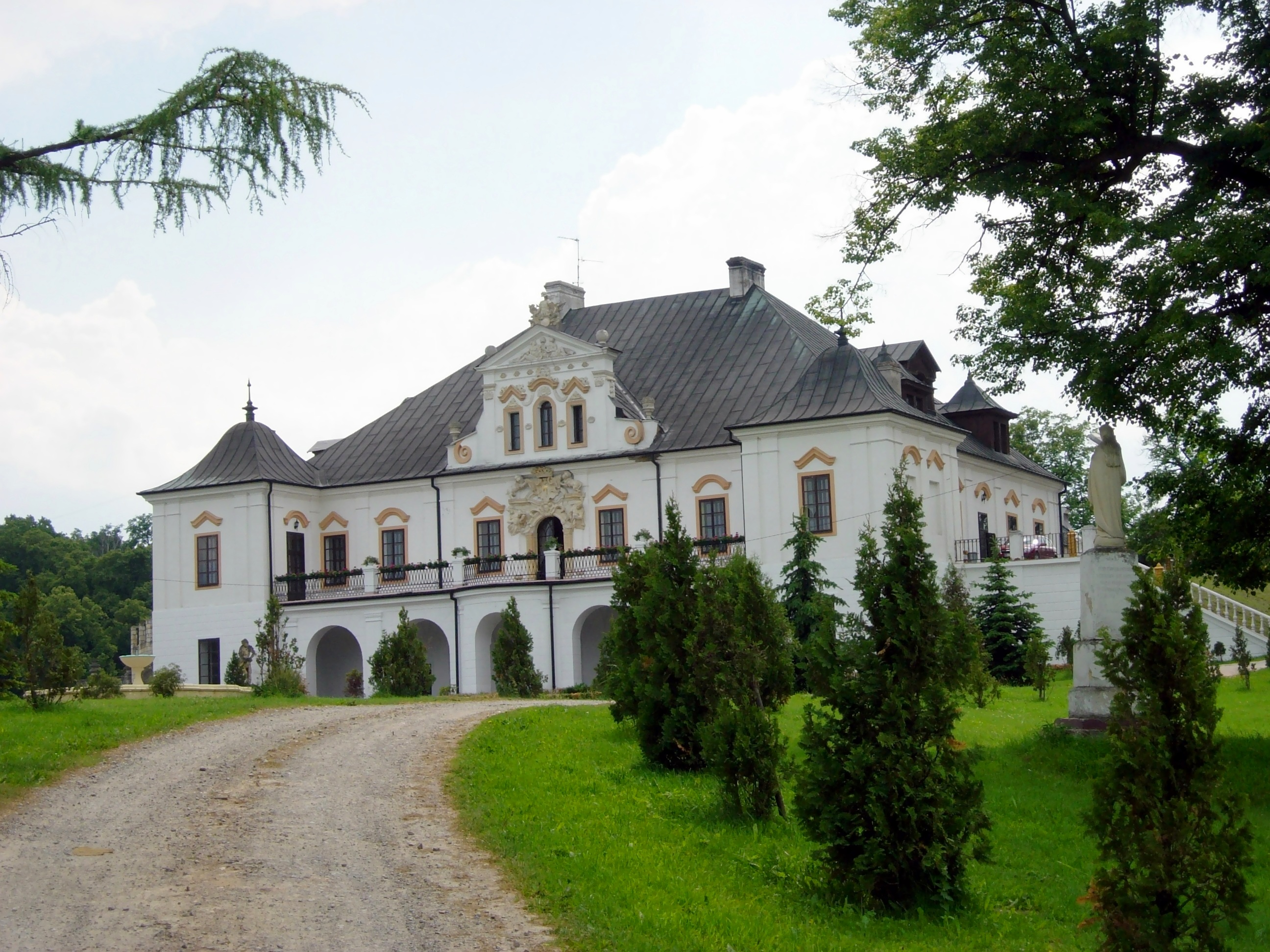 The palace in Czyżów Szlachecki, Poland